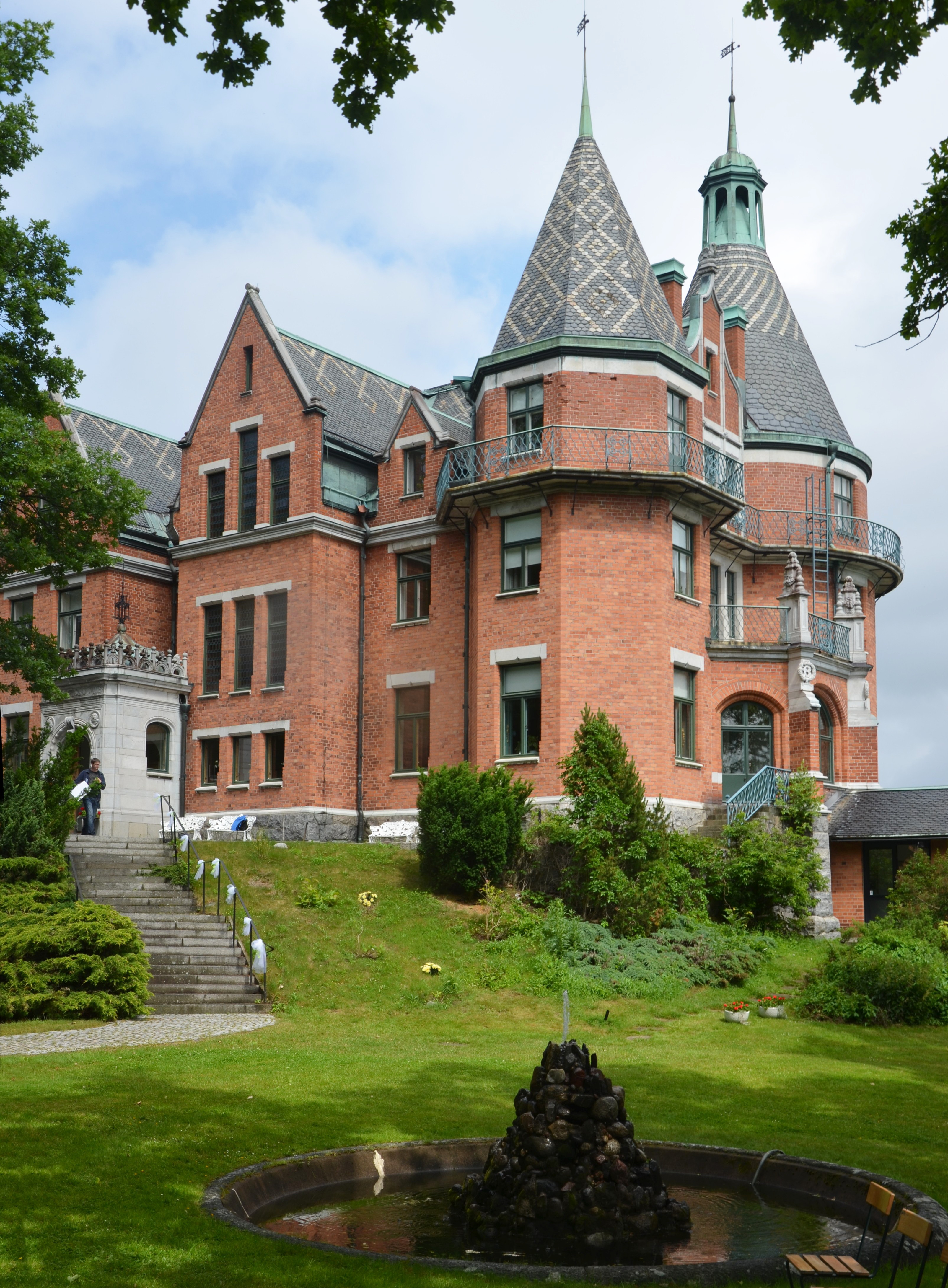 Villa Skärtofta, numera del av Vår Gård i Saltsjöbaden, uppförd för John Bernström 1897, arkitekt Gustav A H Lindgren